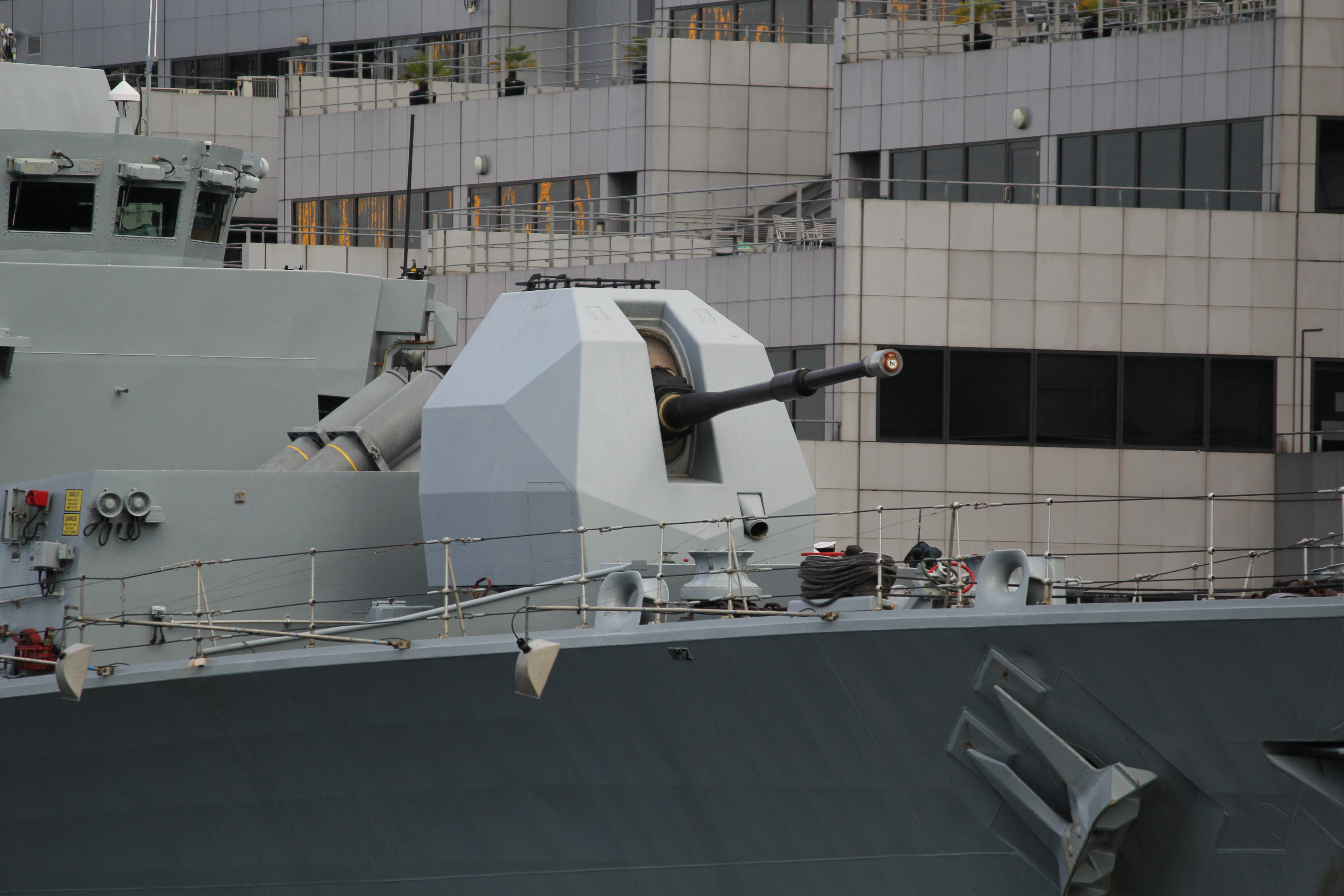 HMS Northumberland (F238) docked at West India South Dock.